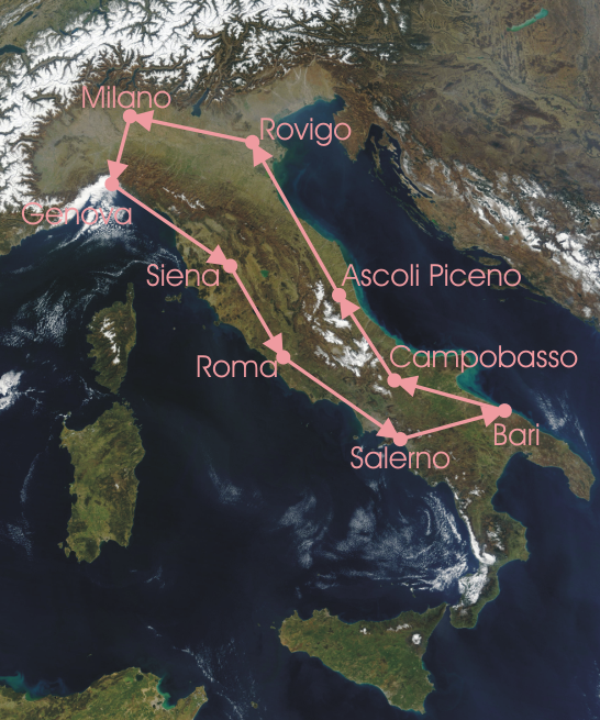 Map of Italy highlighting the stages of 1913 Giro d'Italia